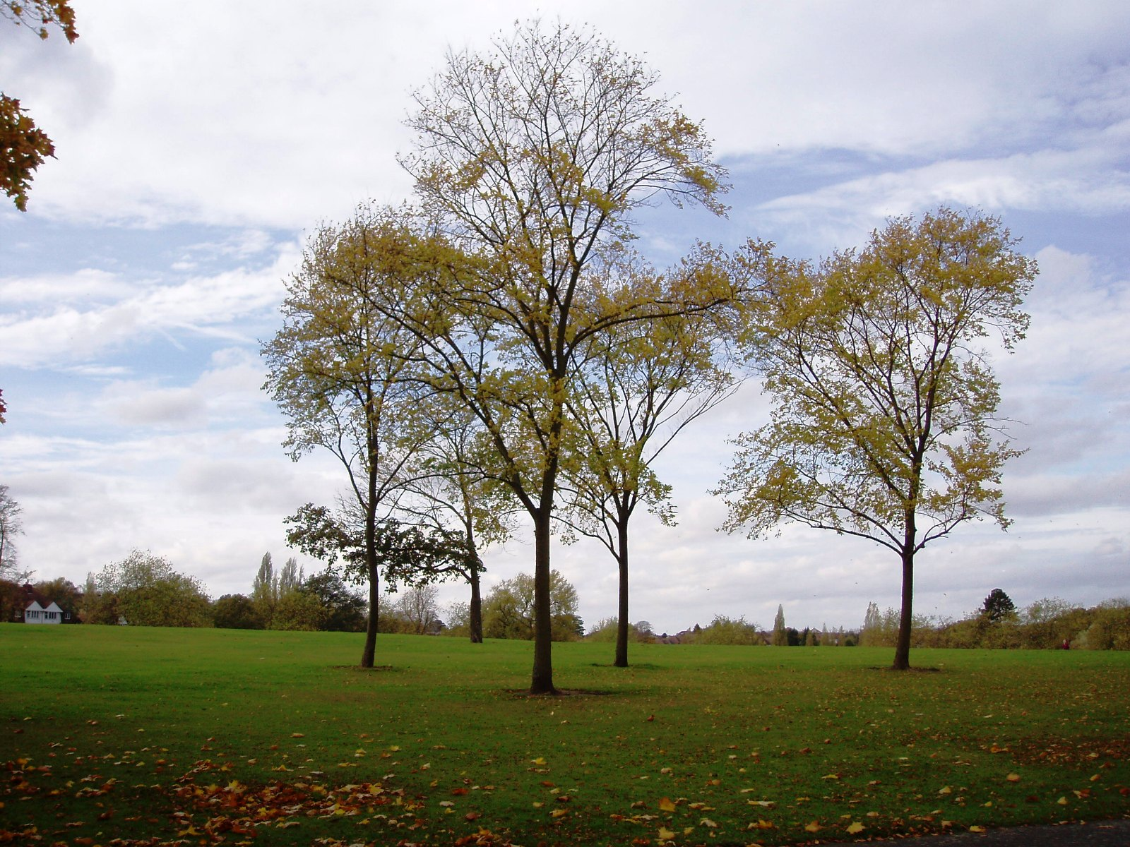 A stretch of playing fields, but hardly unattractive. Photo taken October 2008. Owner: London Borough of Croydon.